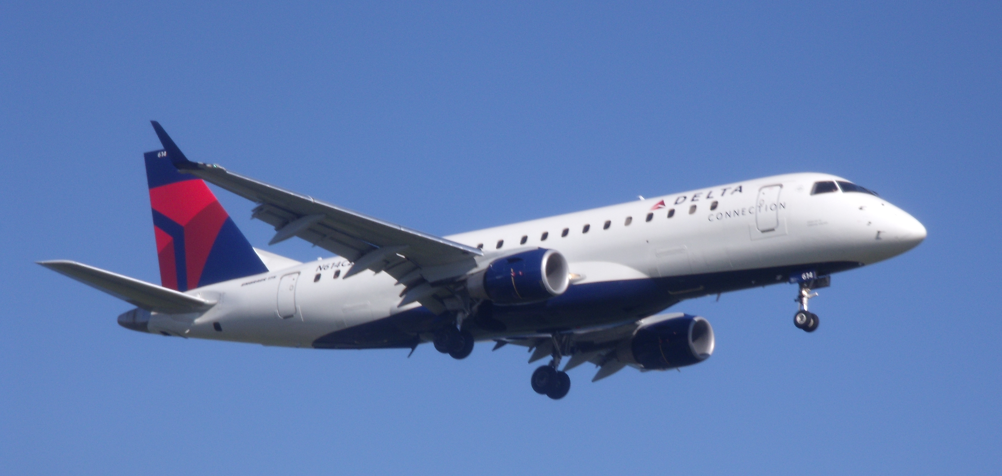 Landing at KDCA